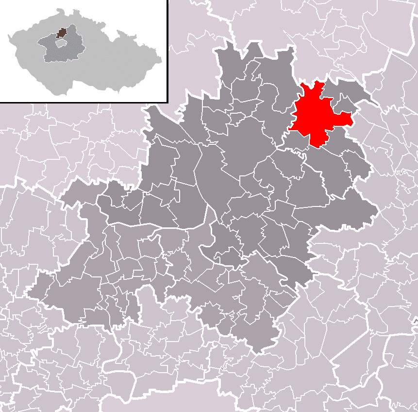 Location of Mšeno town within Mělník District and administrative area of Mělník as a Municipality with Extended Competence.